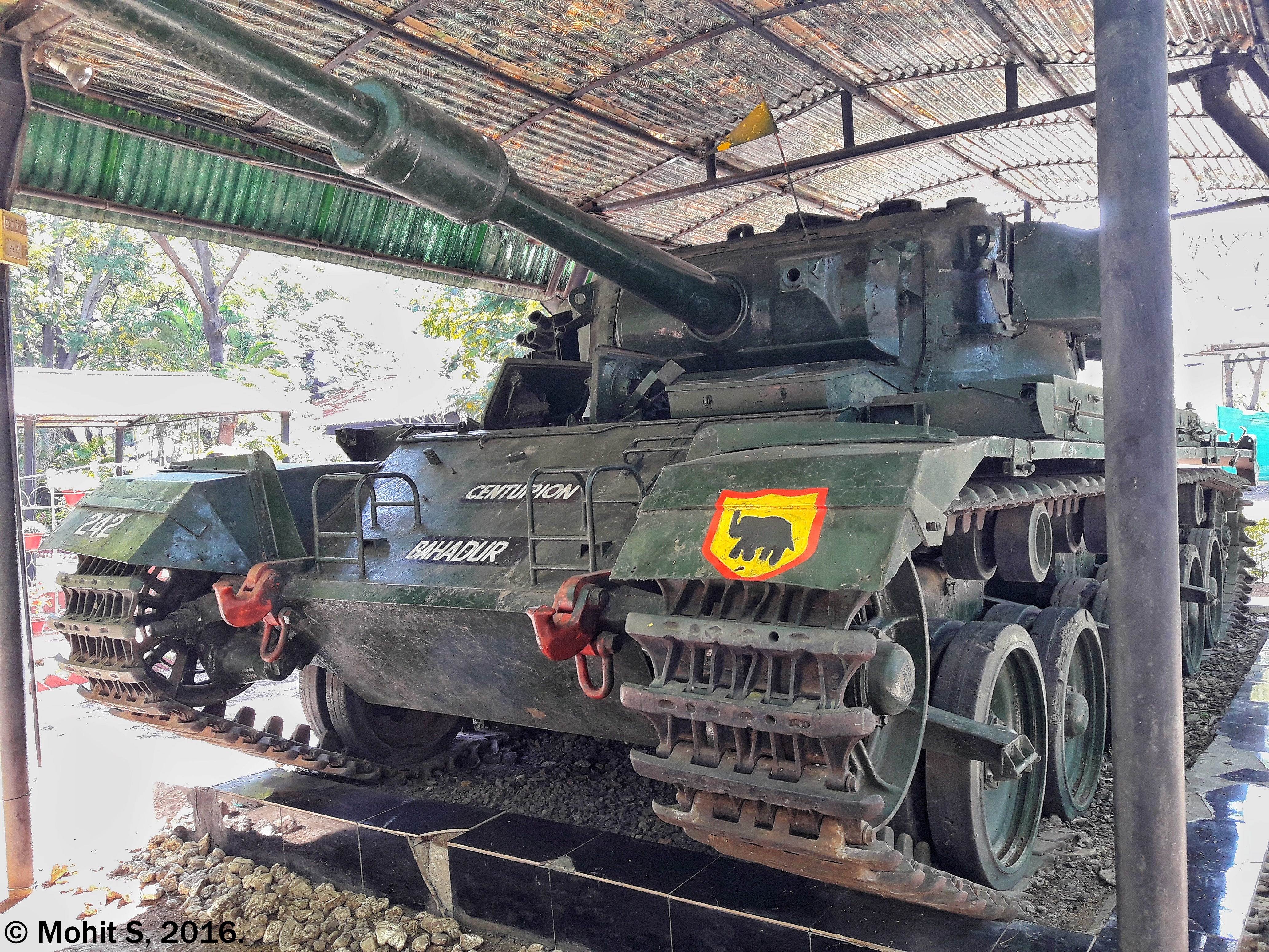 British-made Centurion Mk-7 of the Indian🇮🇳 Army. My second favourite tank in the museum. Centurion Tanks are considered to be one of the most successful post-war tank designs. In 1965, the bulk of India's tank fleet was older M4 Sherman tanks, but India also had Centurion Mk.7 tanks, with the 105 mm gun. The Centurion Mk.7 at that time was one of the most modern western tanks. In the Battle of Assal Uttar, The Centurion, with its 105mm gun and heavy armour, proved to be more than a match to M47 and M48 Patton's, Pakistan was outfought on the battlefield by India. Despite the qualitative and numerical superiority of Pakistani armour. The Centurion battle tank, with its 105 mm gun and heavy armour, performed better than the overly complex Patton's. Hence the name was given to the Centurion Tank "Bahadur" which means Brave. (The picture is been edited) -More informationℹ about the Asia's only historic tank museum can be found here and here Location: Cavalry Tank museum, Maharashtra, India. Clicked from Samsung J7-6.